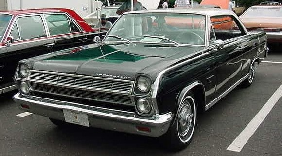 1965 Rambler Ambassador 990 (this was the top of the line model) two-door hardtop (no "B-pillar") built by American Motors Corporation (AMC) and finished in black with a contrasting white top. Picture taken at the 2003 AMCRC car show that was held in Somerset, New Jersey.